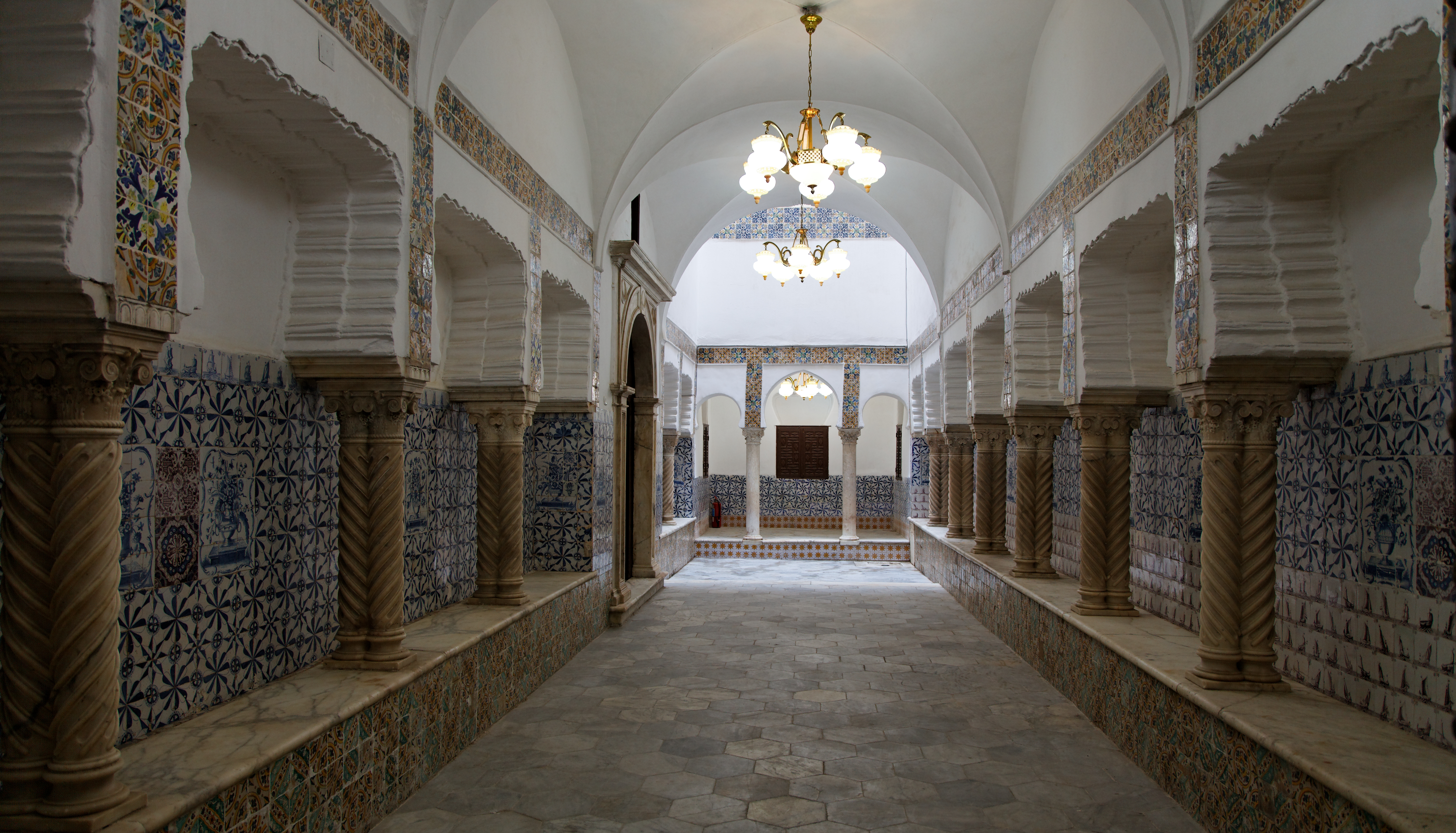 Casbah Palace